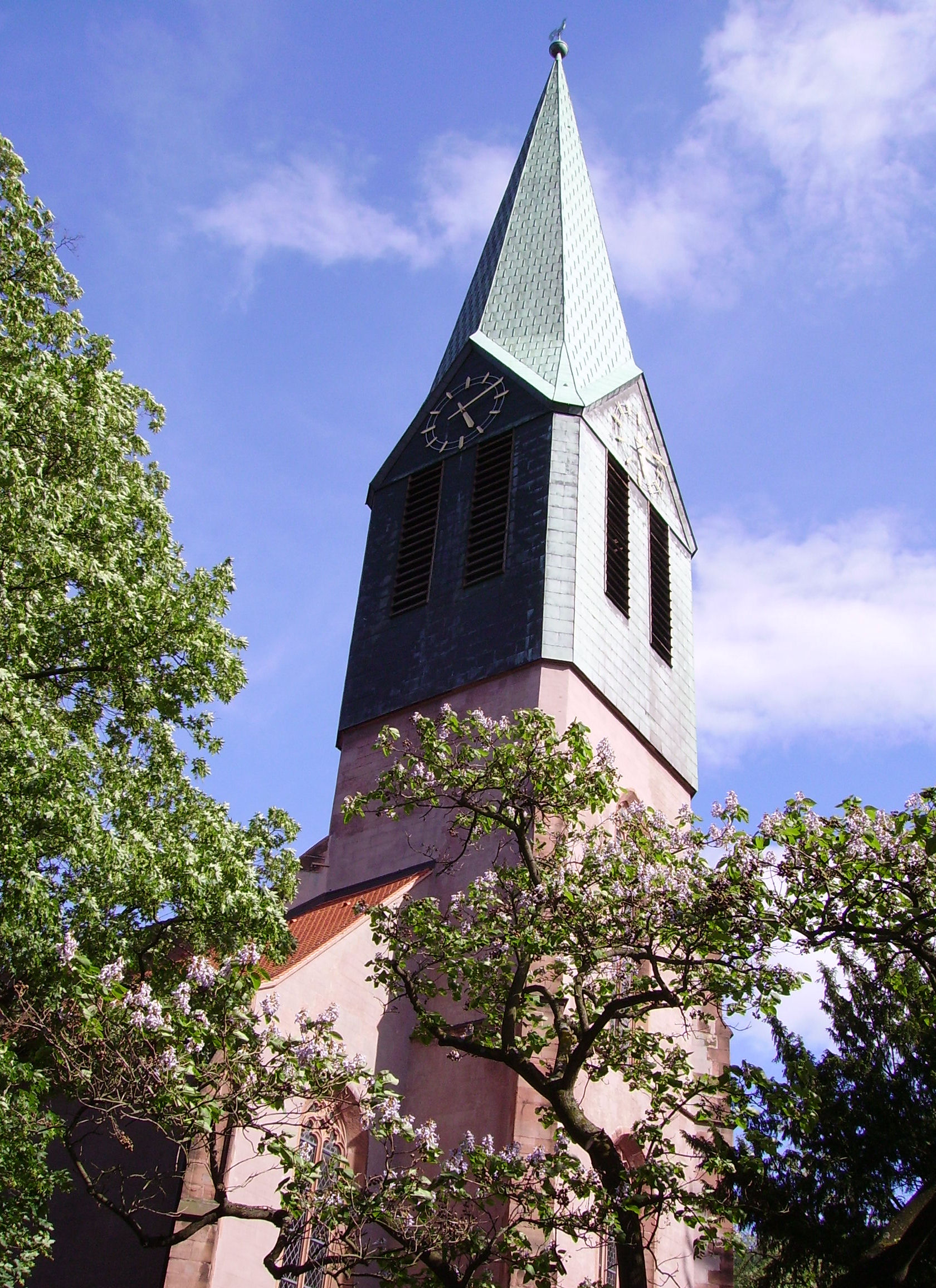 university of Heidelberg, Germany